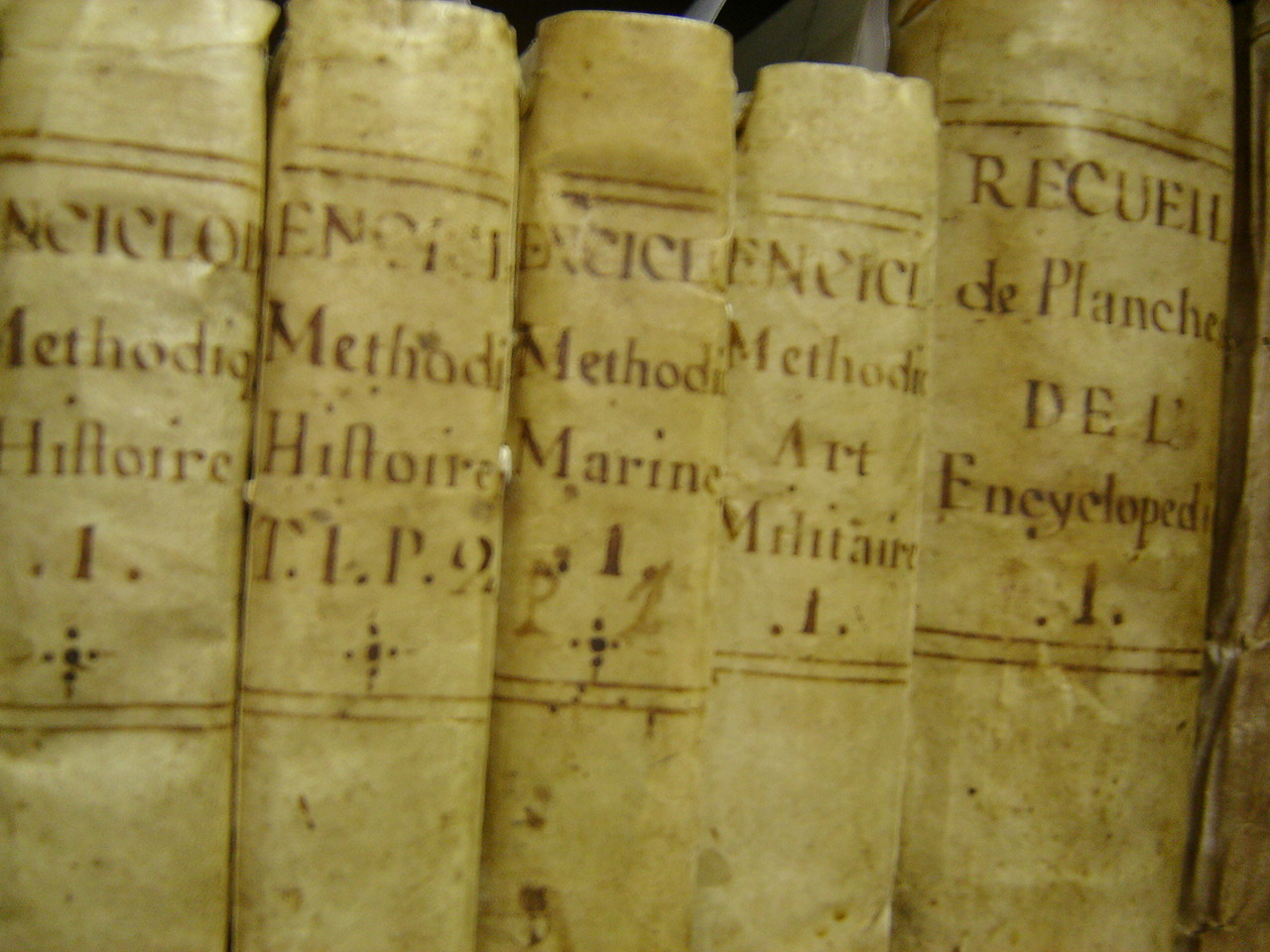 D´alambert and Diderot´s Encyclopedia, at the Ludwig von Mises Library